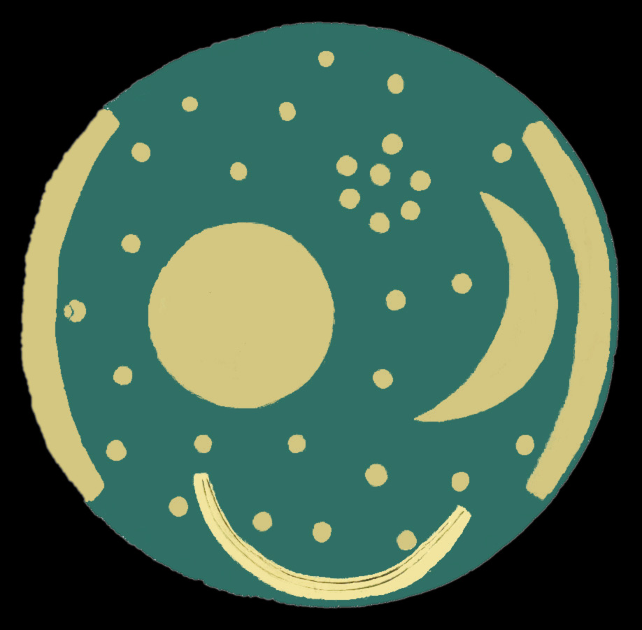 Nebra skydisc, third state (simplified depiction).